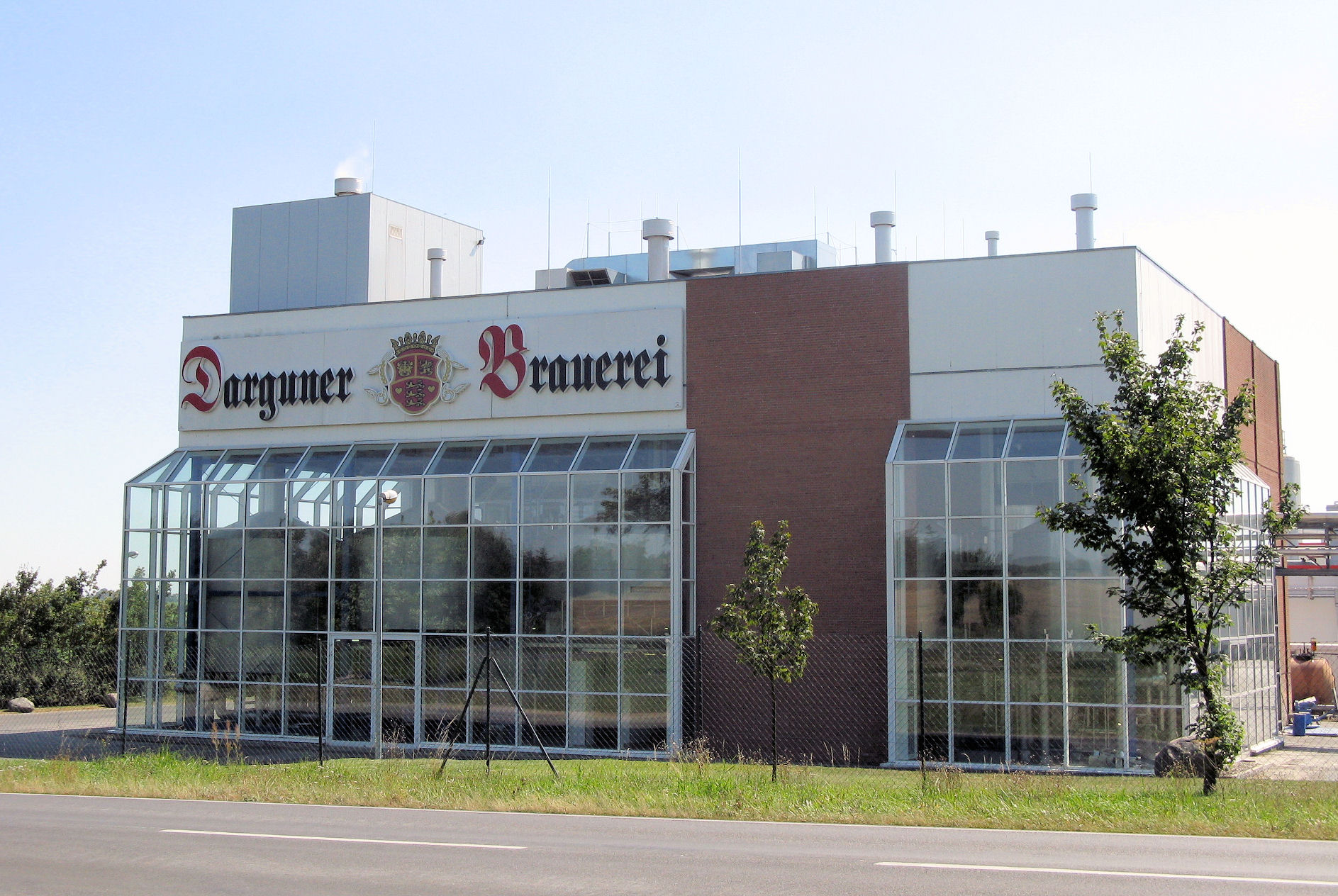 Brewery in Dargun, disctrict Demmin, Mecklenburg-Vorpommern, Germany